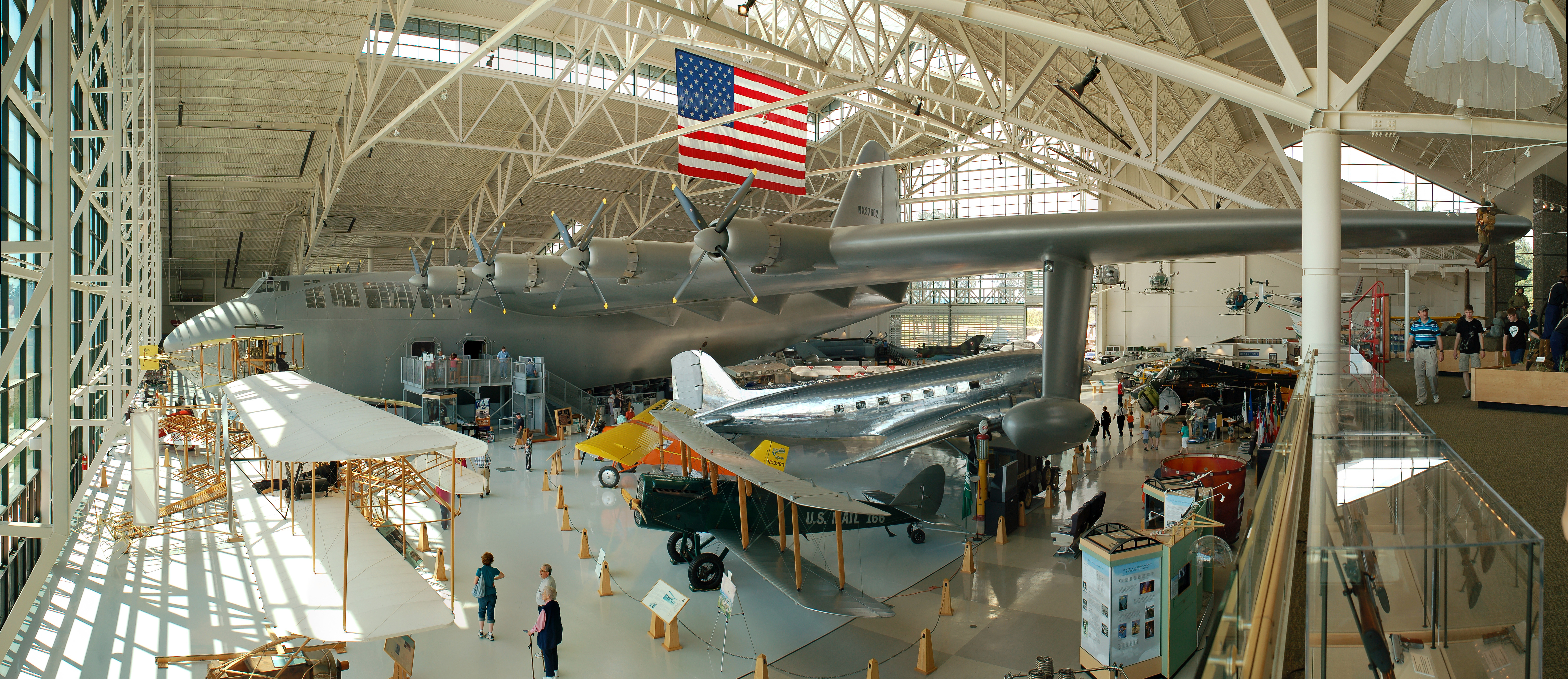 90° panorama of the Hughes H-4 Hercules as currently seen in the Evergreen Aviation & Space Museum. Photo by Gregg M. Erickson